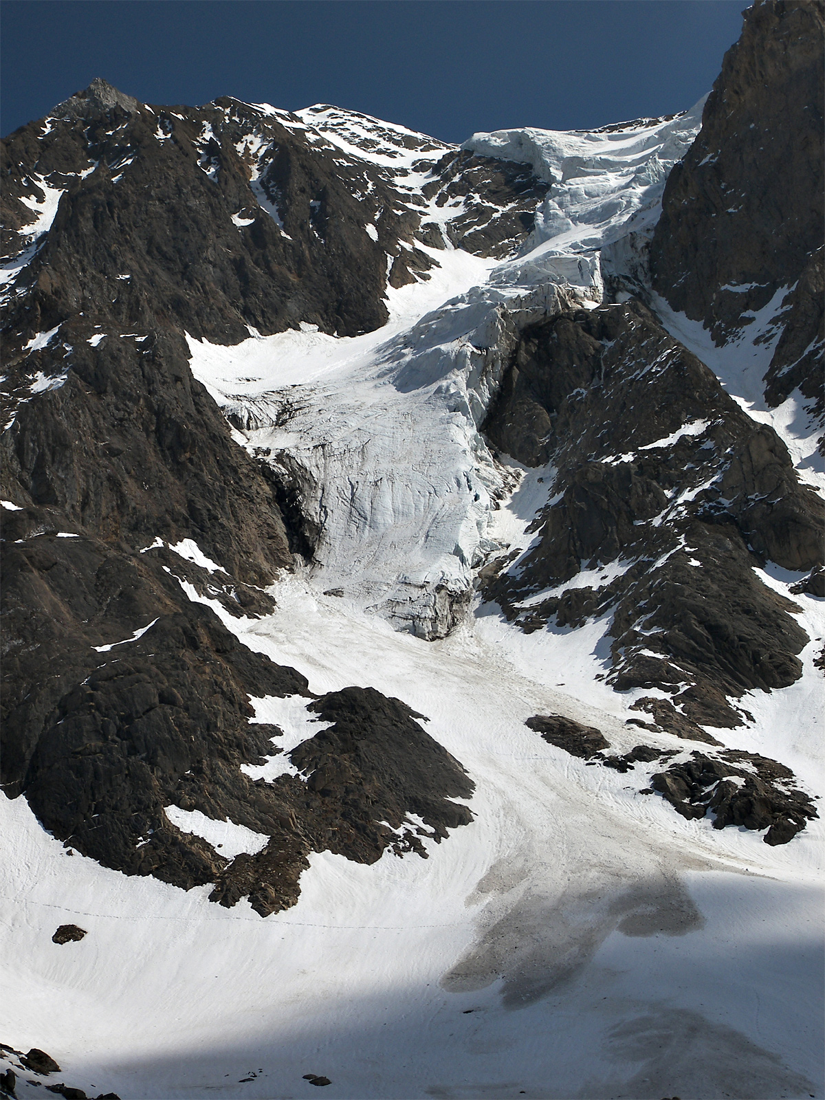 Hochferner - north face, Zillertal Alps, South Tyrol